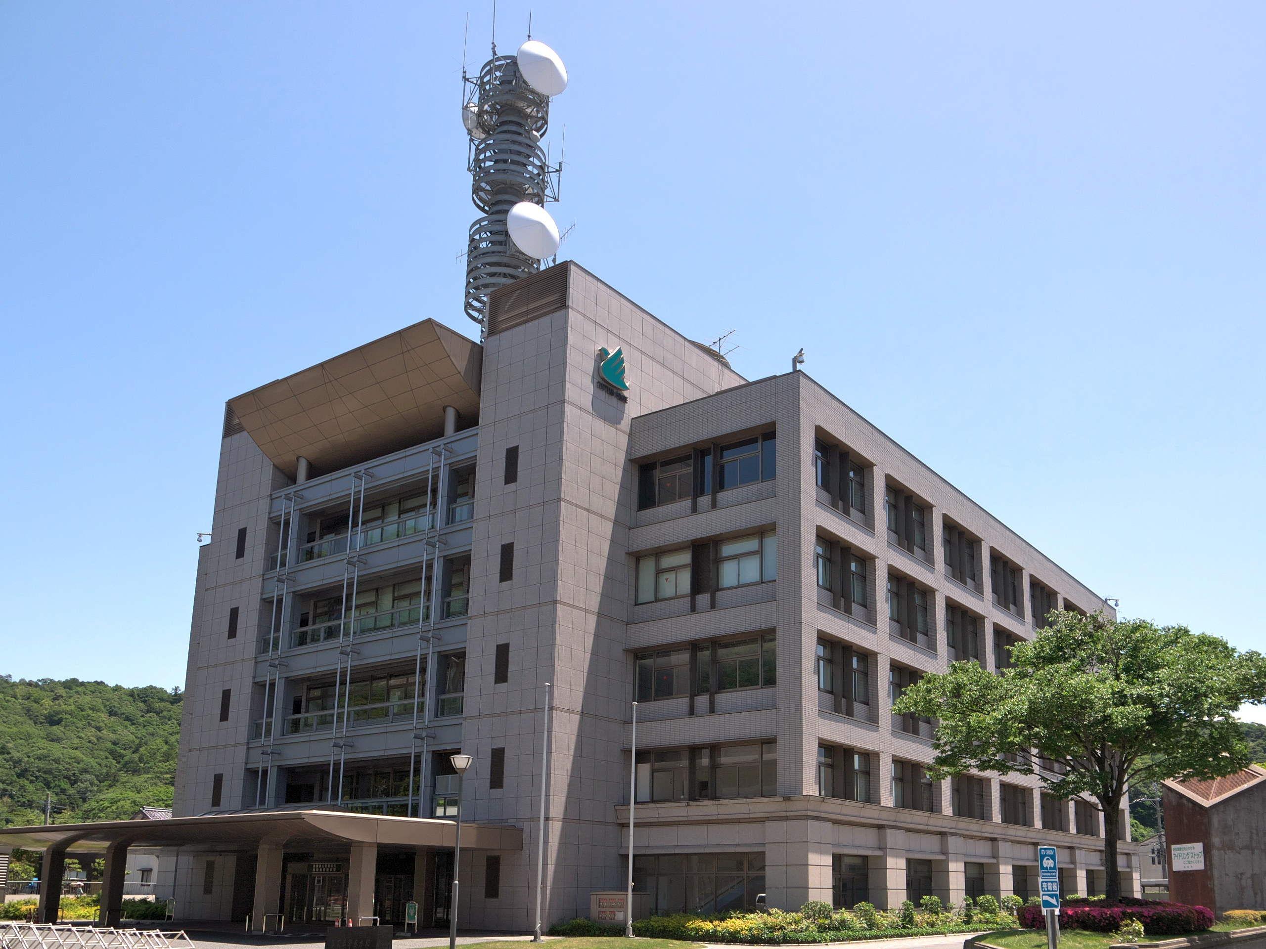 Tottori Prefectural Police Headquarters